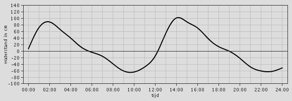 Predicted astronomical tide for IJmuiden, on the Dutch North Sea coast, 21 January 2012. The tide is highly asymmetrical because of interference of the M2 and M4 components.